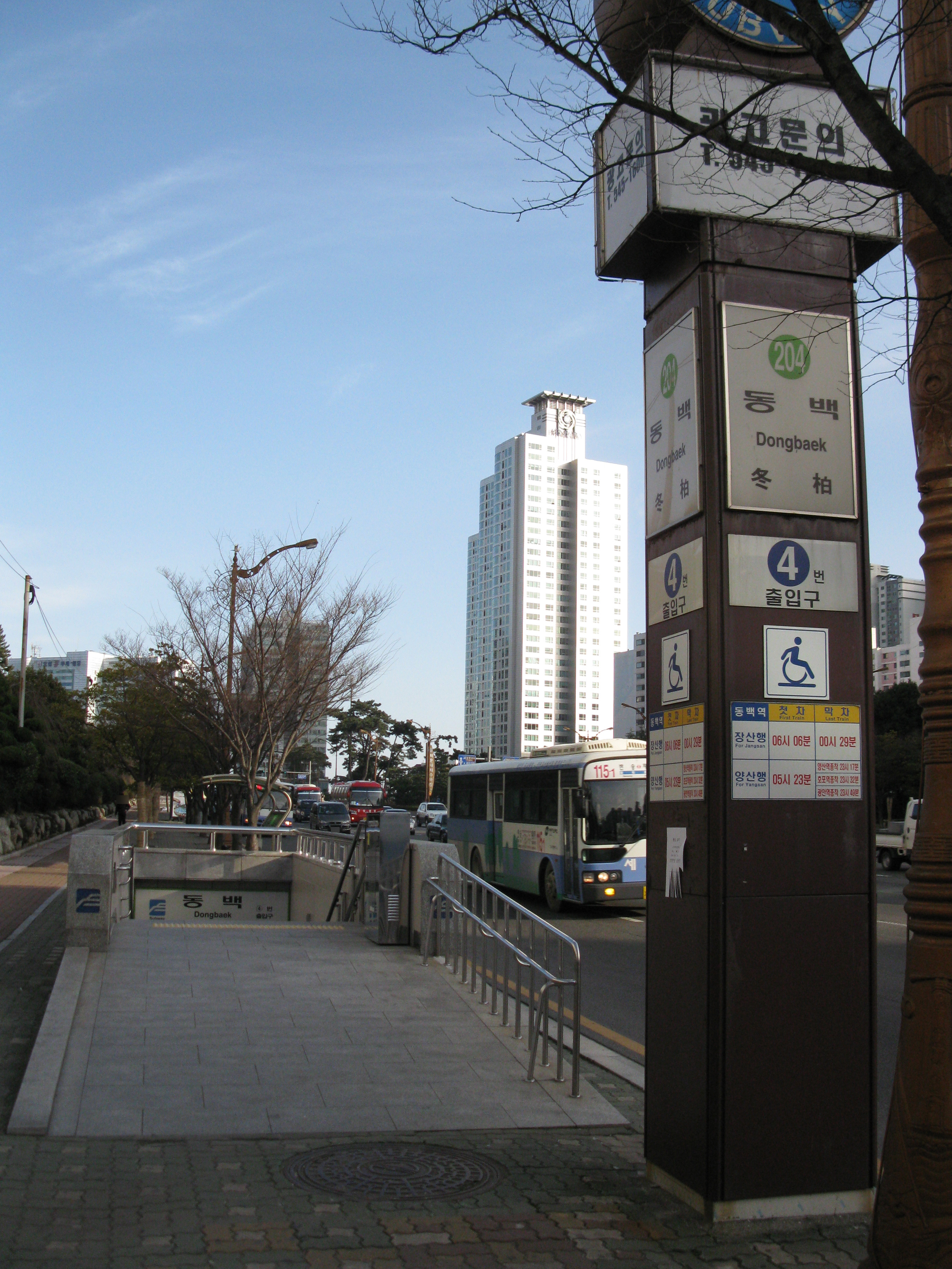 The no.4 entrance of Dongbaek Station, Busan Subway Line 2